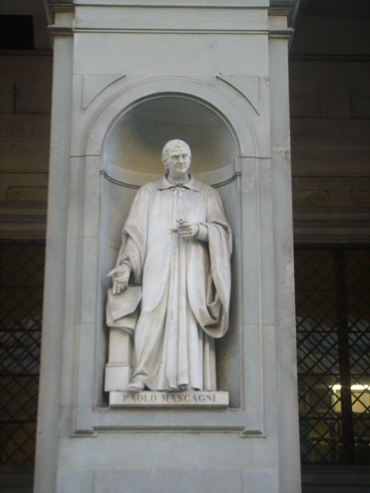 Statues in the Uffizi outside Gallery Famous florentine. See title description